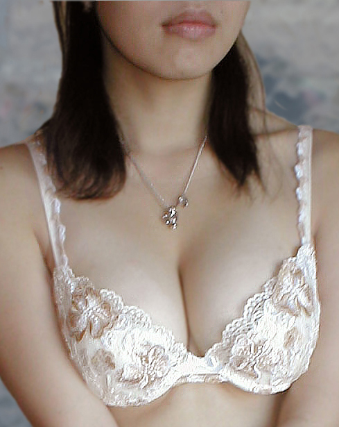 japaneese girl wearing a white E70 -2